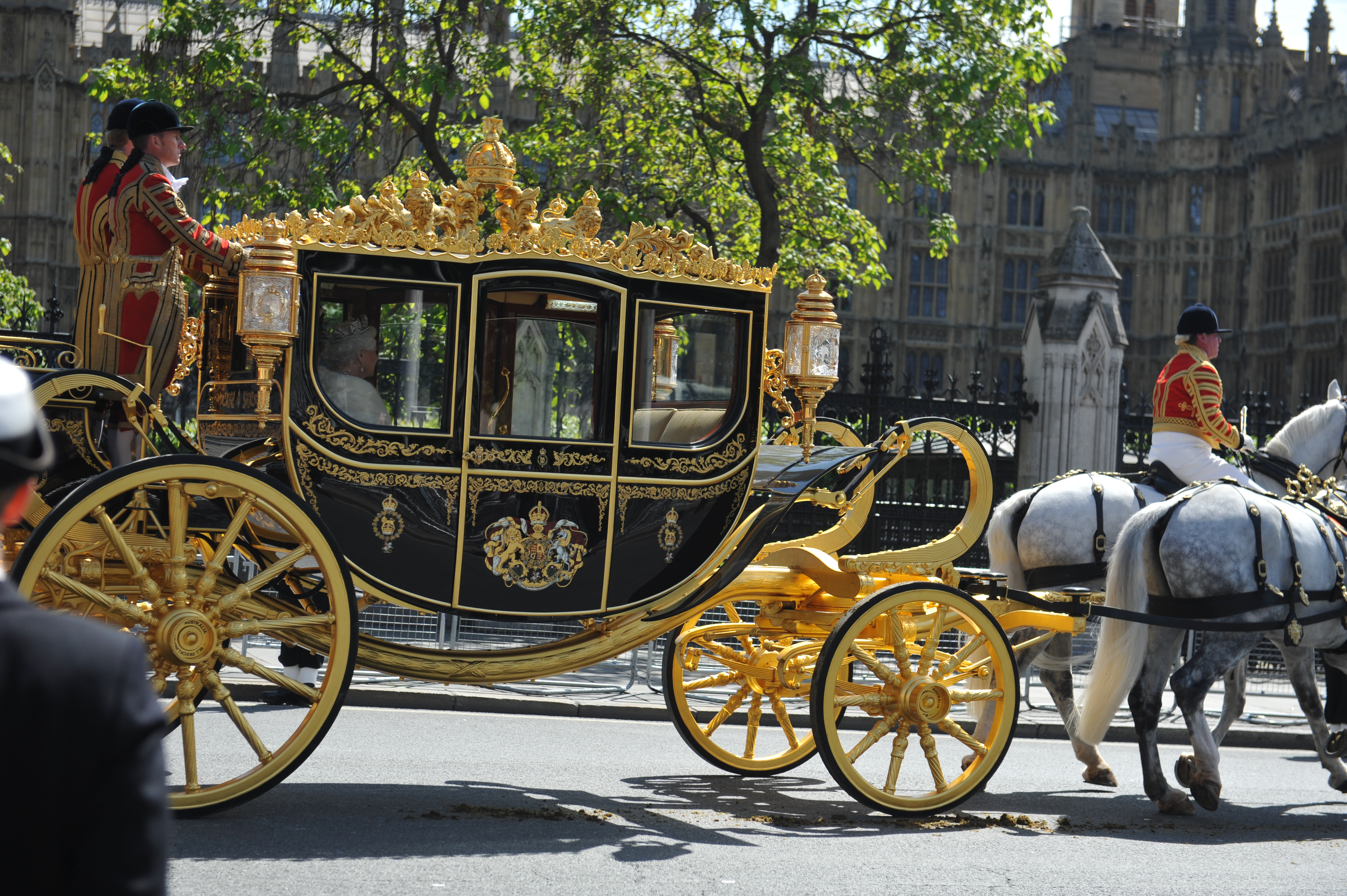 State Opening of Parliament in 2015, the Queen sits in a carriage pulled by two horses.